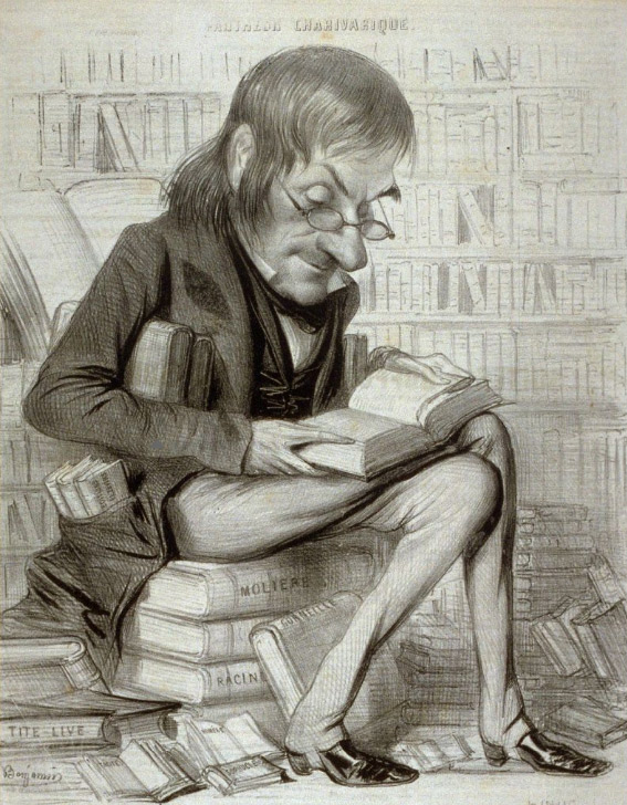 Portrait of Charles Nodier (1780–1844)